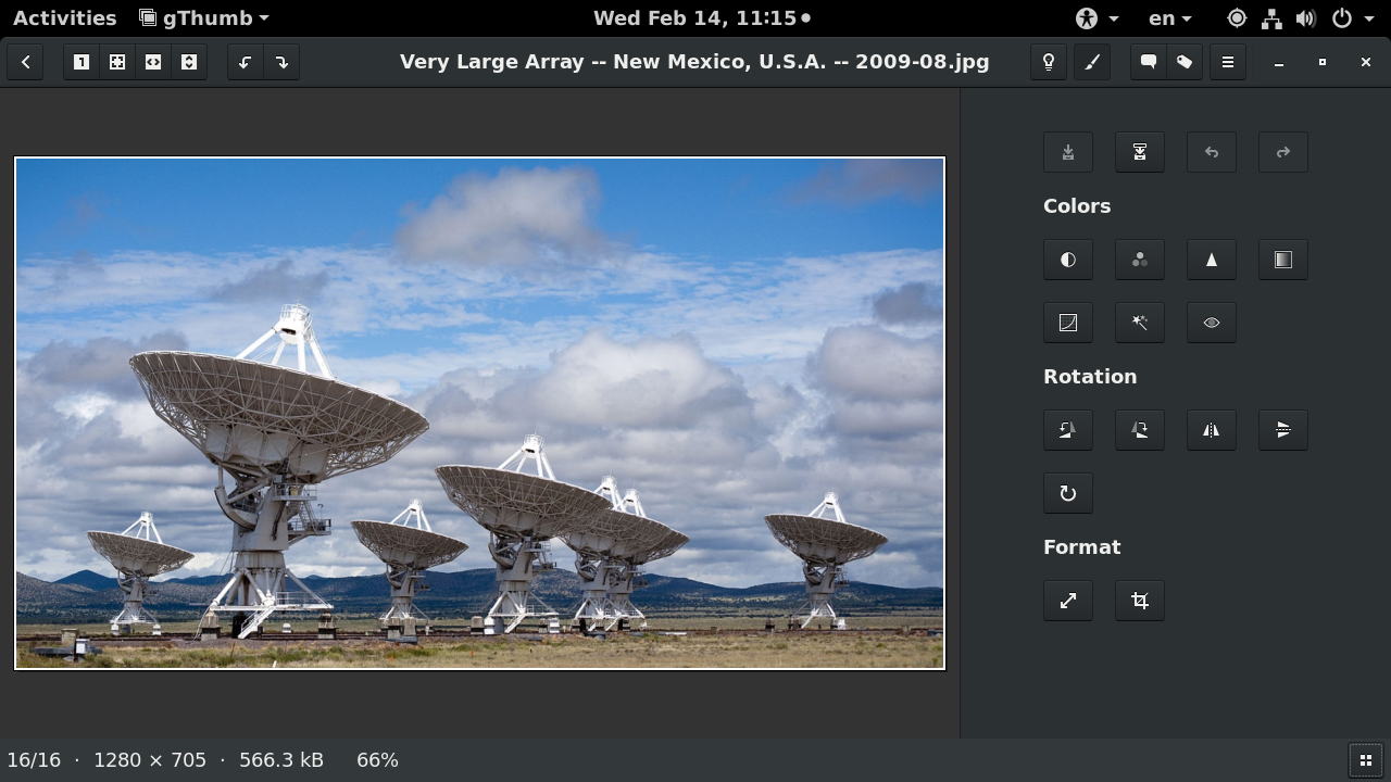 gThumb v3.4--Edit mode. the image is a cropped version of below file